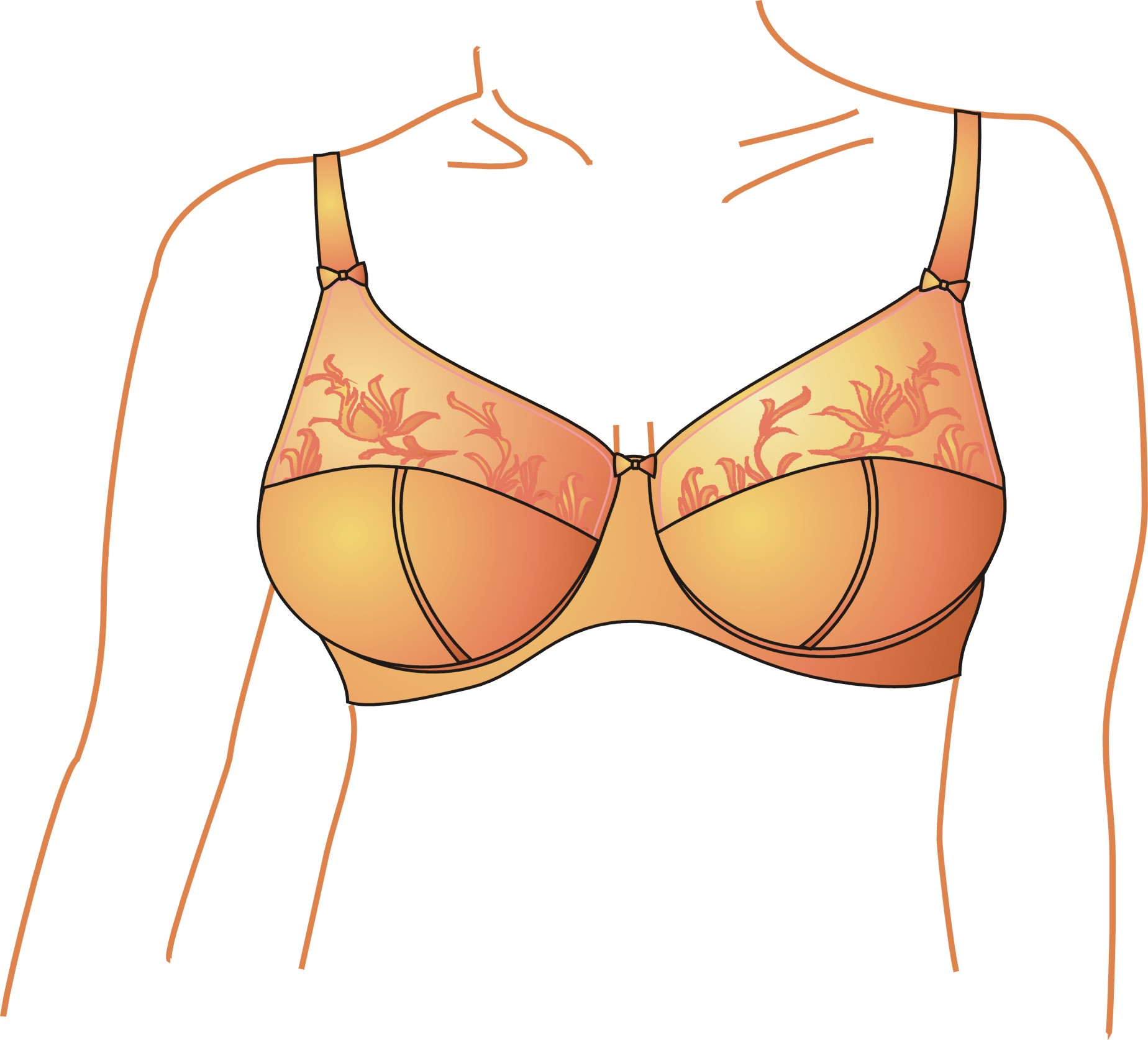 Modern bra - full-cup